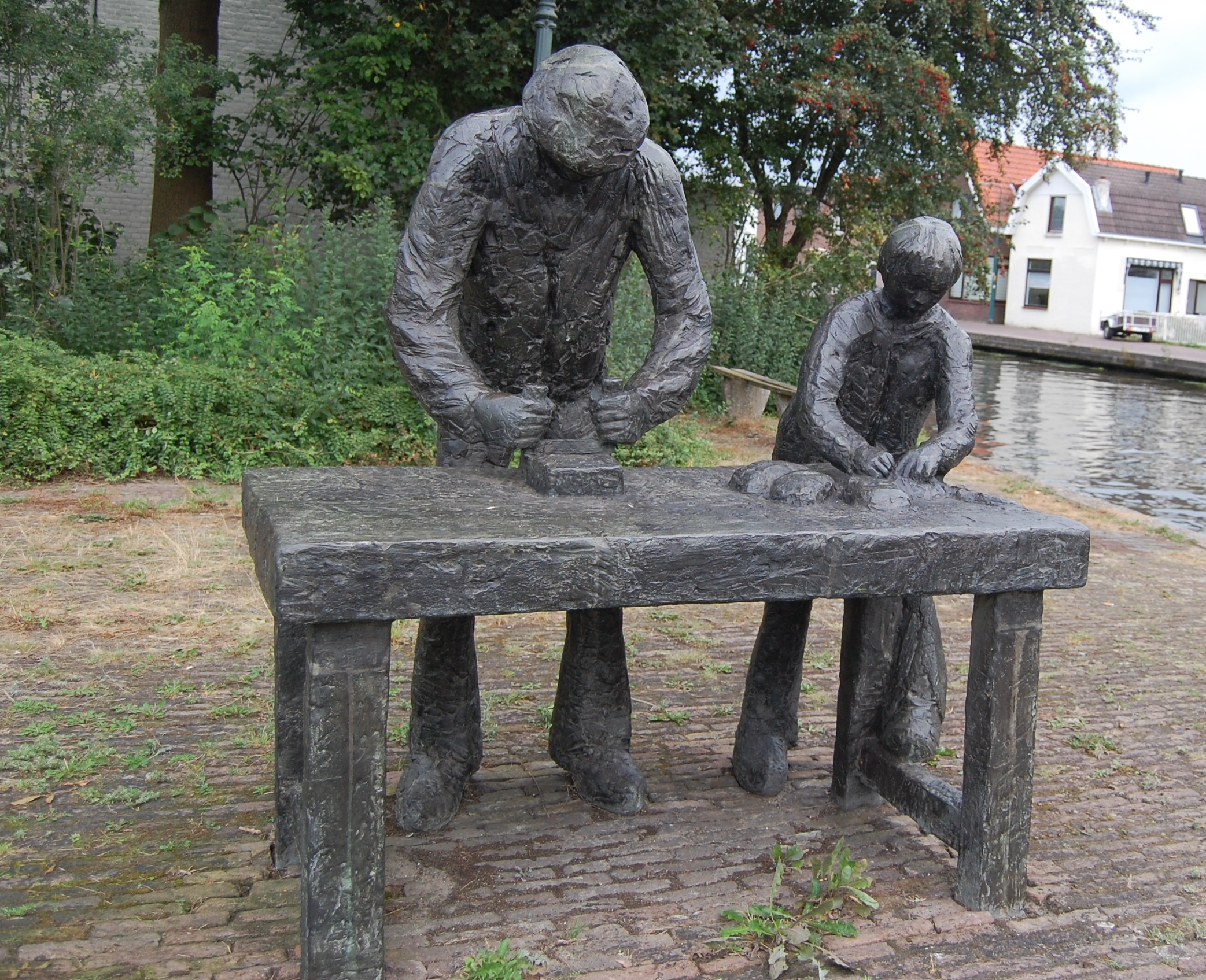 Statue of persons making bricks, by Ineke van Dijk. Woerden, The Netherlands